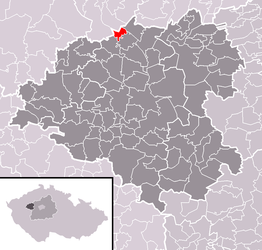 Location of Janov municipality within Rakovník District and (identical) administrative area of Rakovník as a Municipality with Extended Competence.